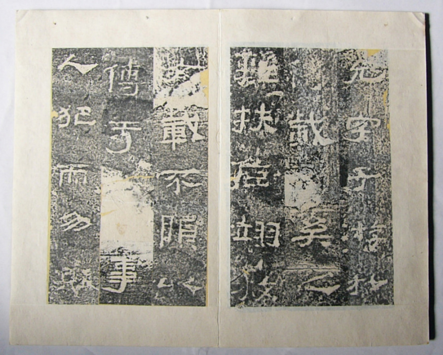 Rubbing of Fragment of Zi Ｙｏｕ Stele(ACE115), China, Two pages of an album 29cm height